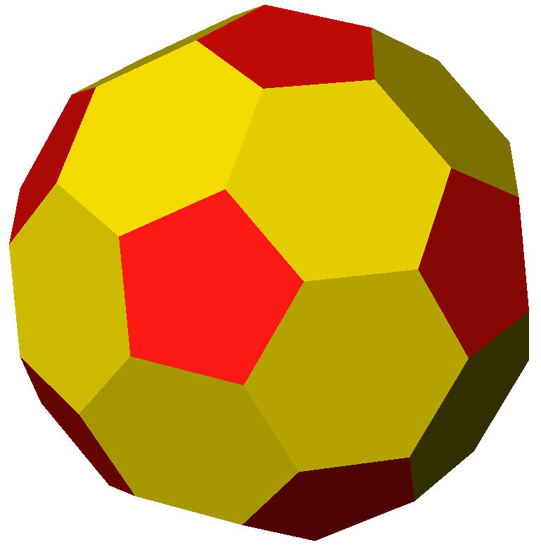 Transition Dodecahedron to Icosahedron 4of5